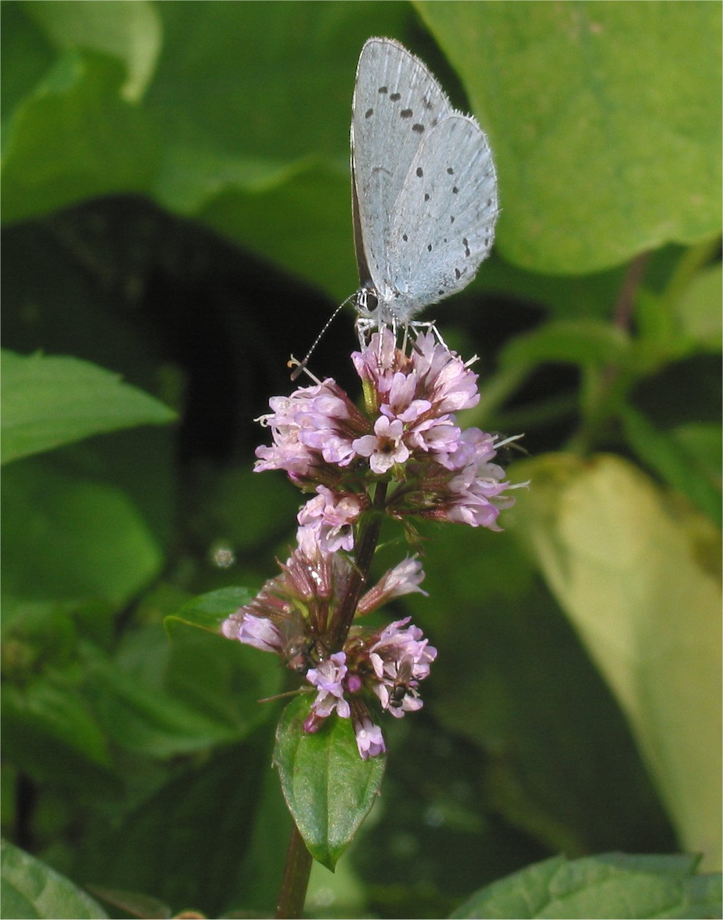 (nl: Boomblauwtje op pepermunt) Celastrina argiolus on Mentha × piperita